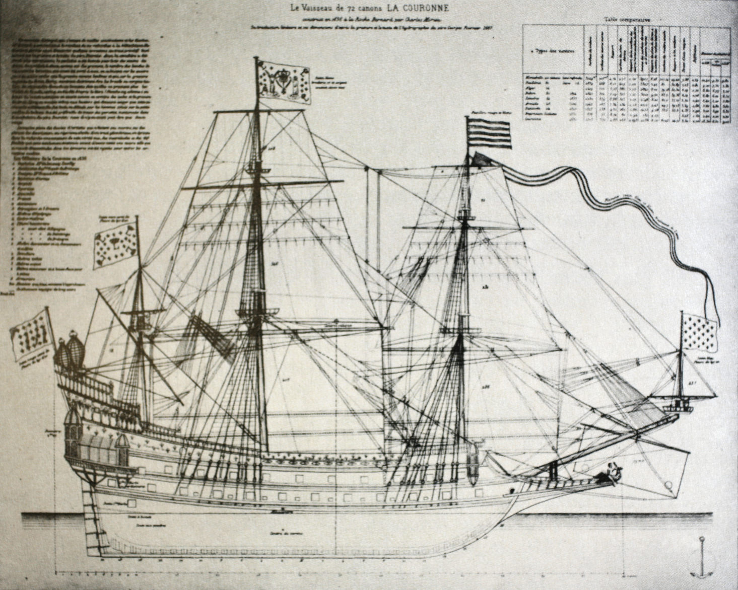 La Couronne, 1636